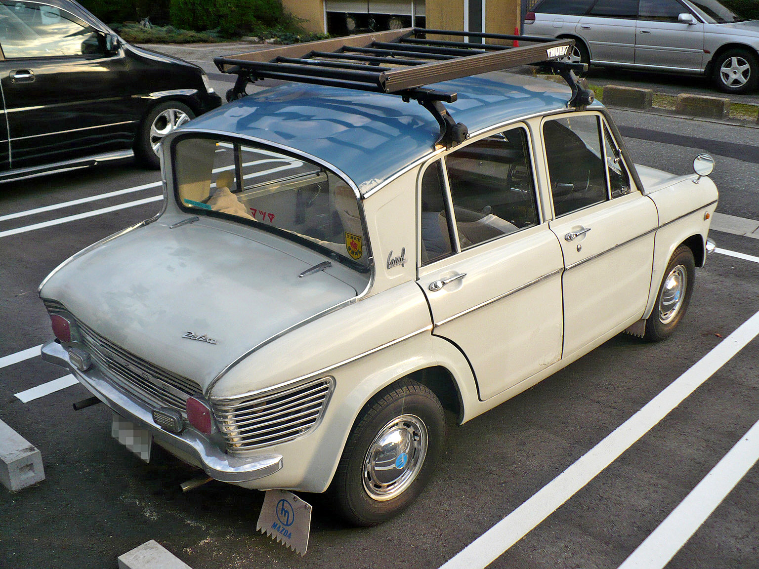 Mazda Carol (first model) rear view. The number plate is masked to protect privacy.